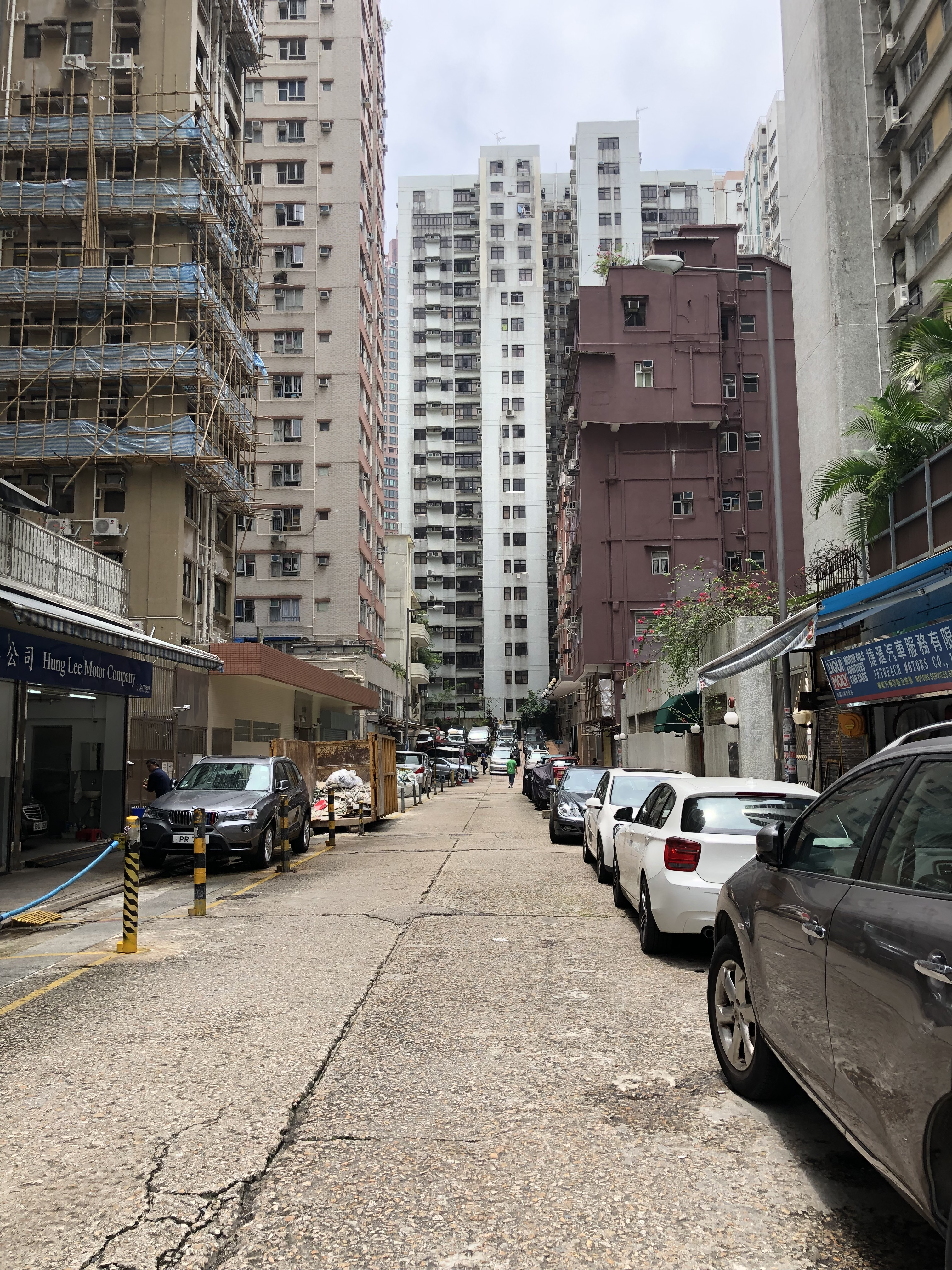 Photo of Ching Wah Street, eastern end, looking west